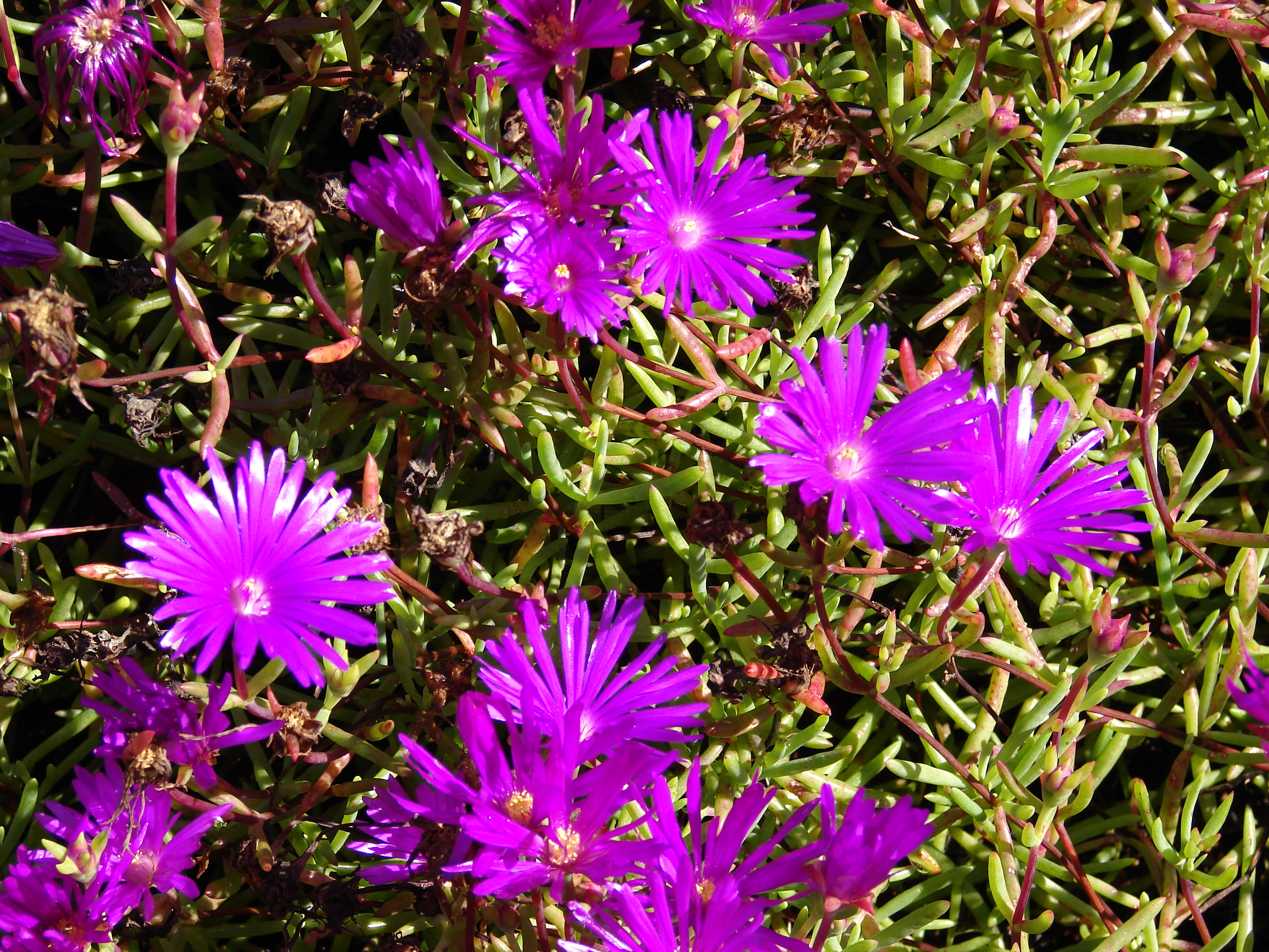 Lampranthus roseus (flowers). Location: Maui, Enchanting Floral Gardens of Kula